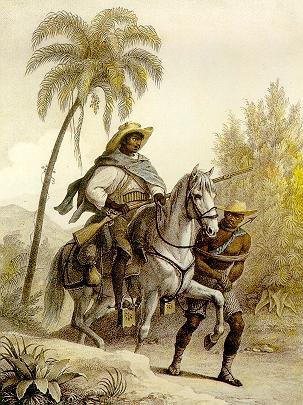 "Capitão-do-mato" (slave hunter). Watercolor by Johann Moritz Rugendas, 1823. (Public domain)